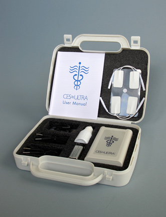 CES Ultra is a Cranial Electrotherapy Stimulation device for treating insomnia, depression, PSTD